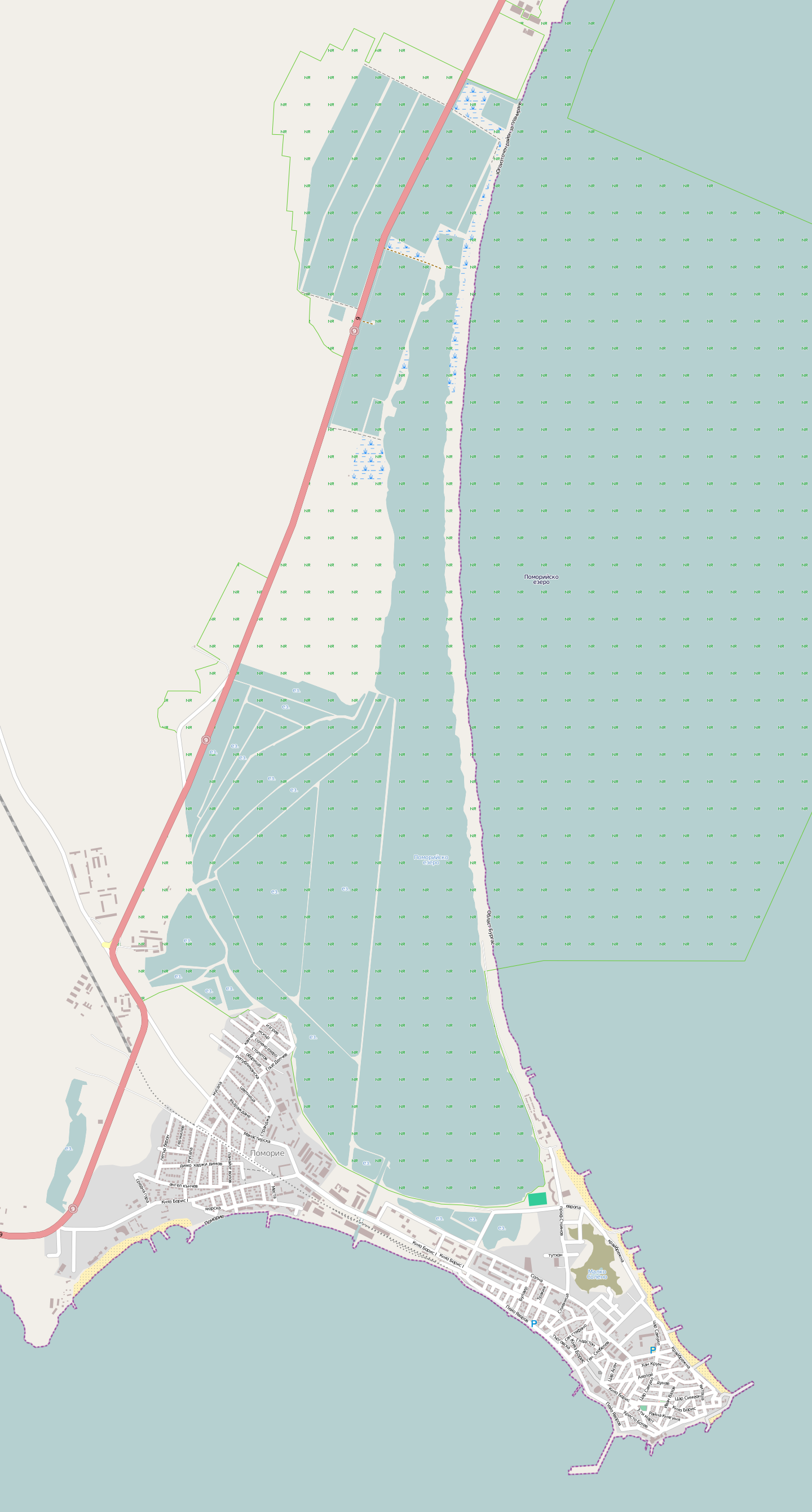 Pomorie in Bulgaria